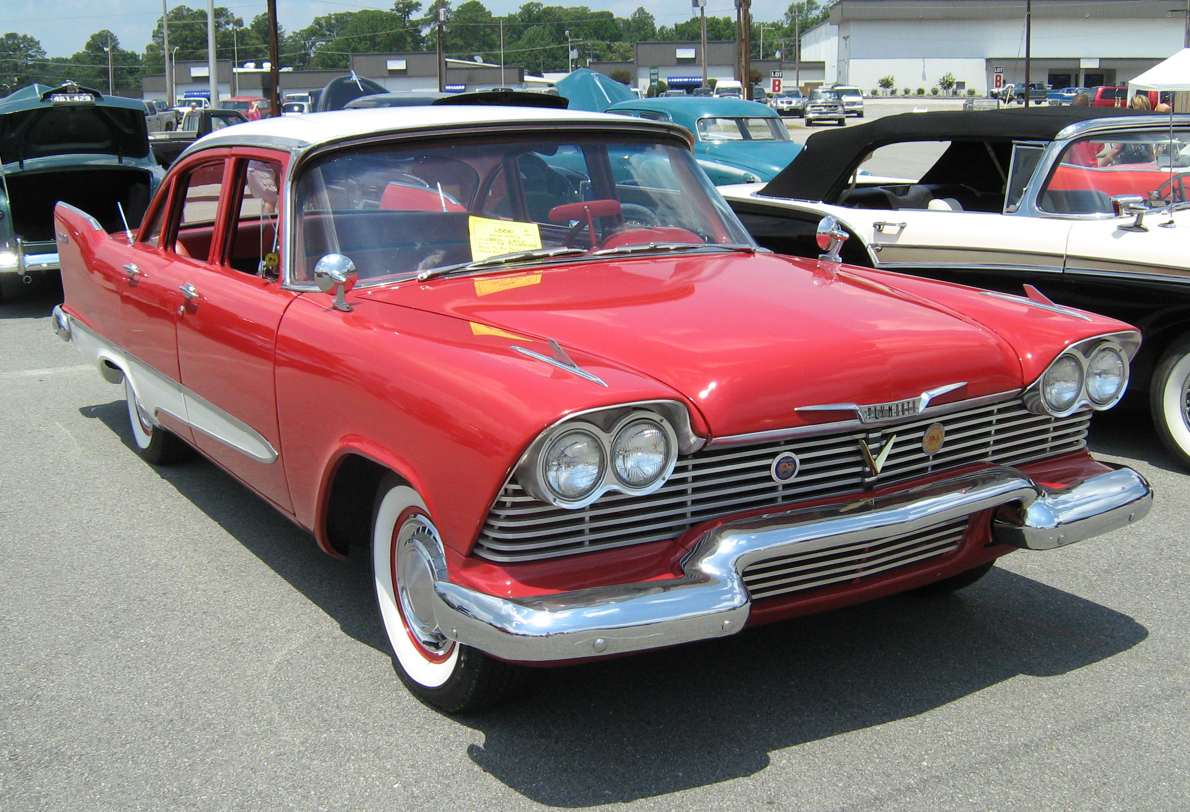 1958 Plymouth Savoy 4-door sedan. The automobile is finished in red with a white top.